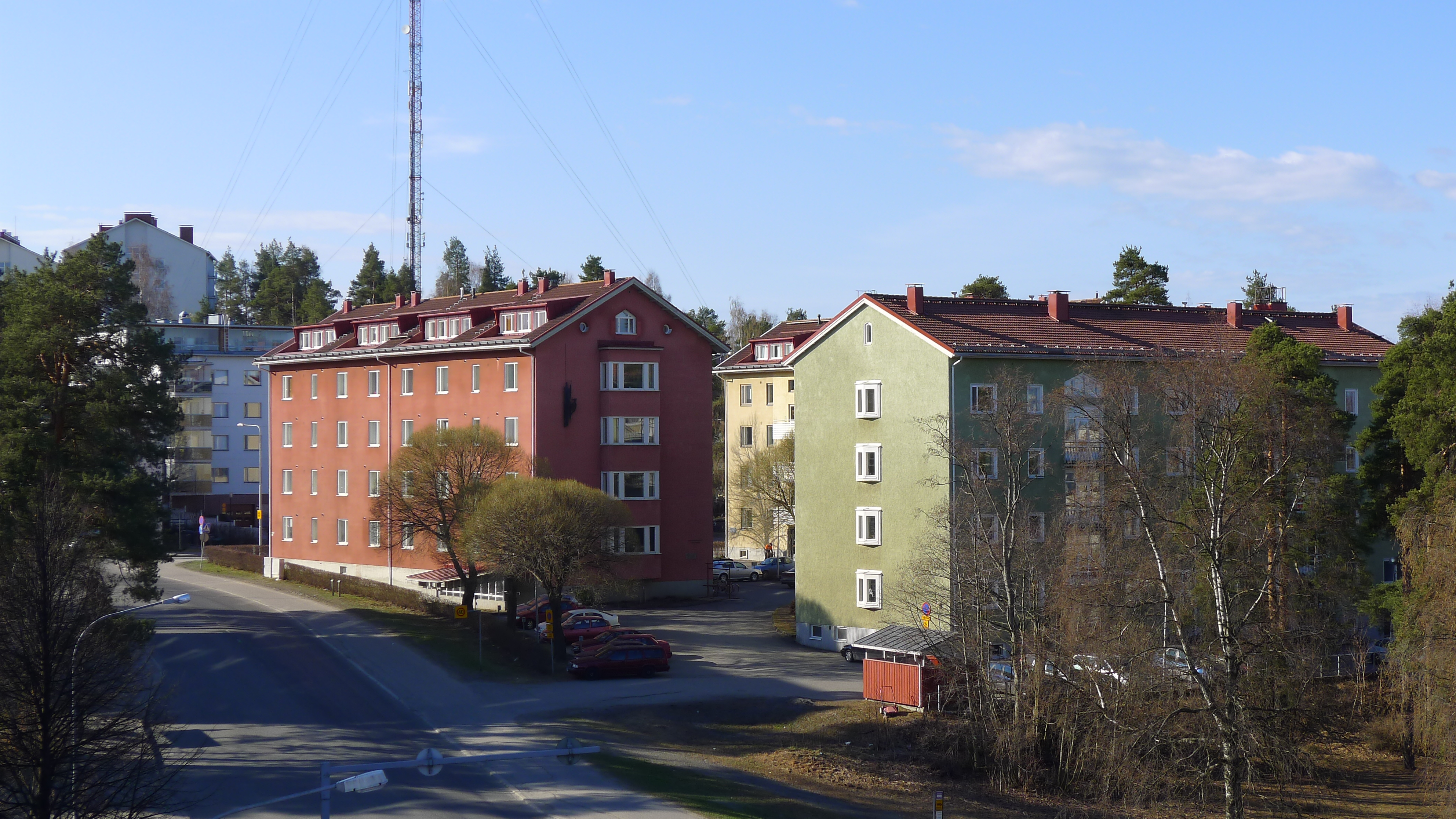 Joensuu Niinivaara Railwaymen's Houses